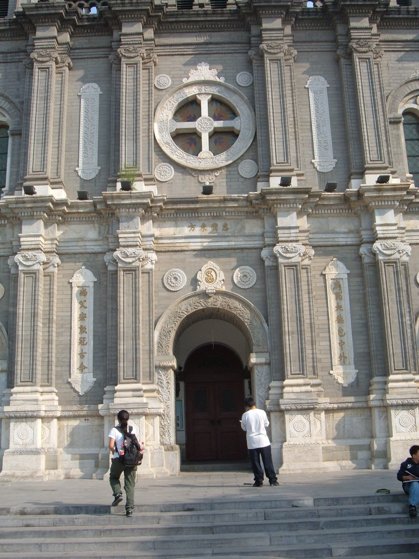 Front entrance of St. Joseph's Cathedral, AKA Dong Tang or the East Church, in Beijing, PRC.